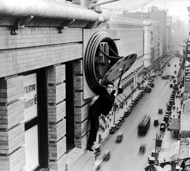 Actor and comedian Harold Lloyd hangs from a prop clock on a replica of the facade of Los Angeles' International Savings & Exchange Bank Building in the 1923 comedy film, "Safety Last!"